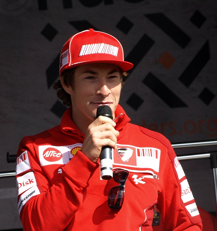 Riders For Health Day of Champions 2009 Donington Park 23rd July 2009